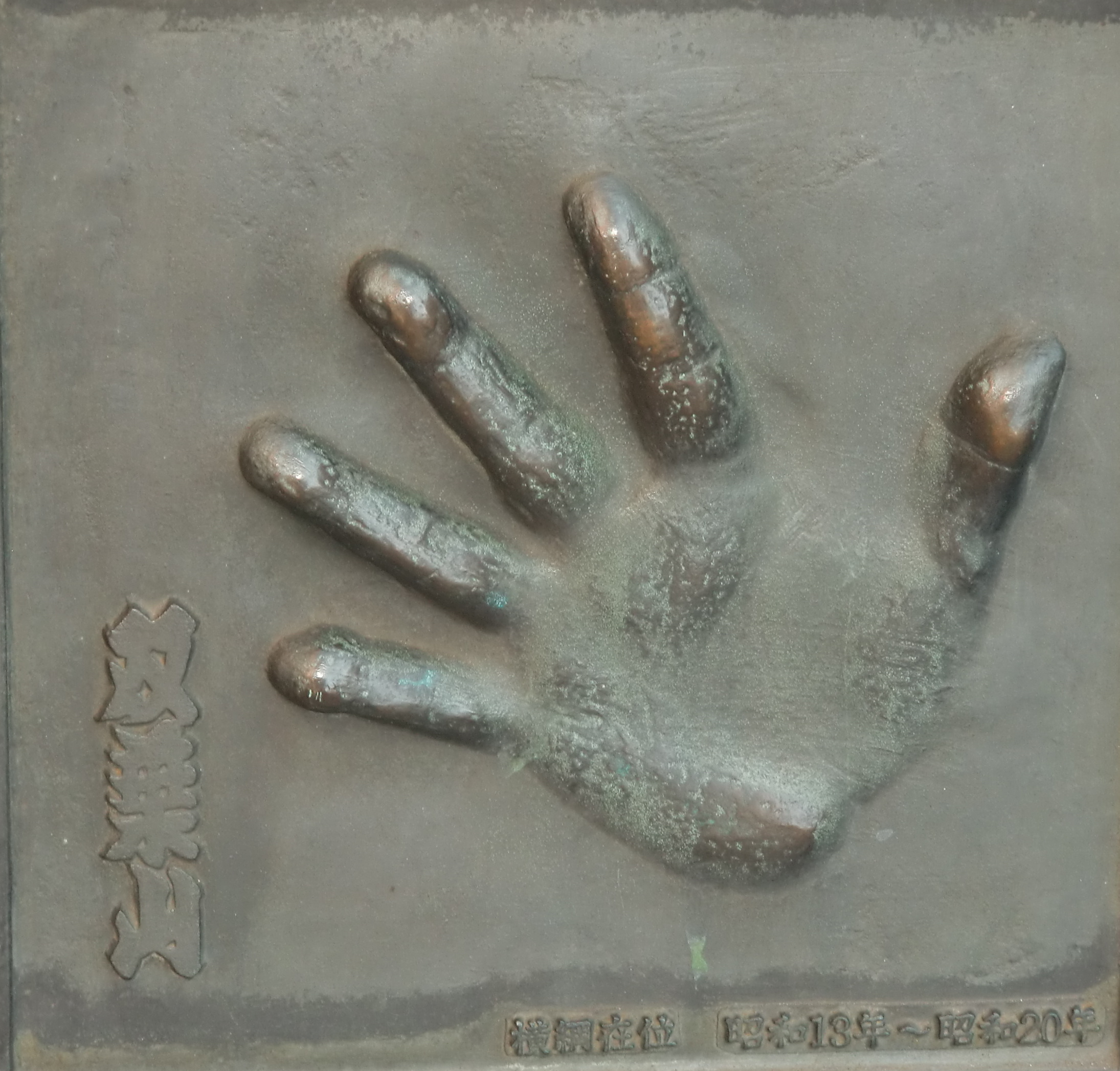 on a monument near Ryogoku Kokugikan